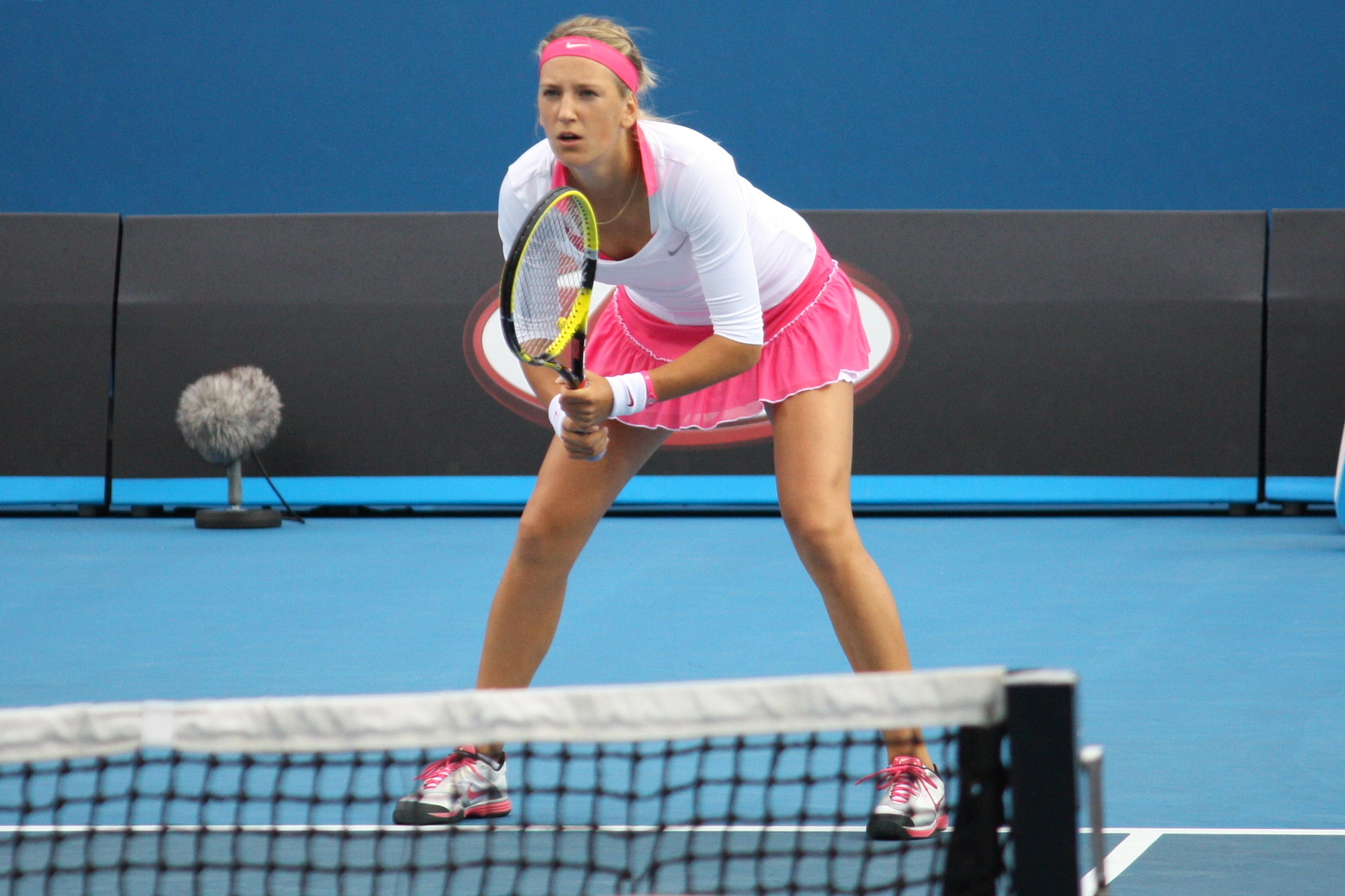 Australian Open 2011 tennis Melbourne Victoria Azarenka